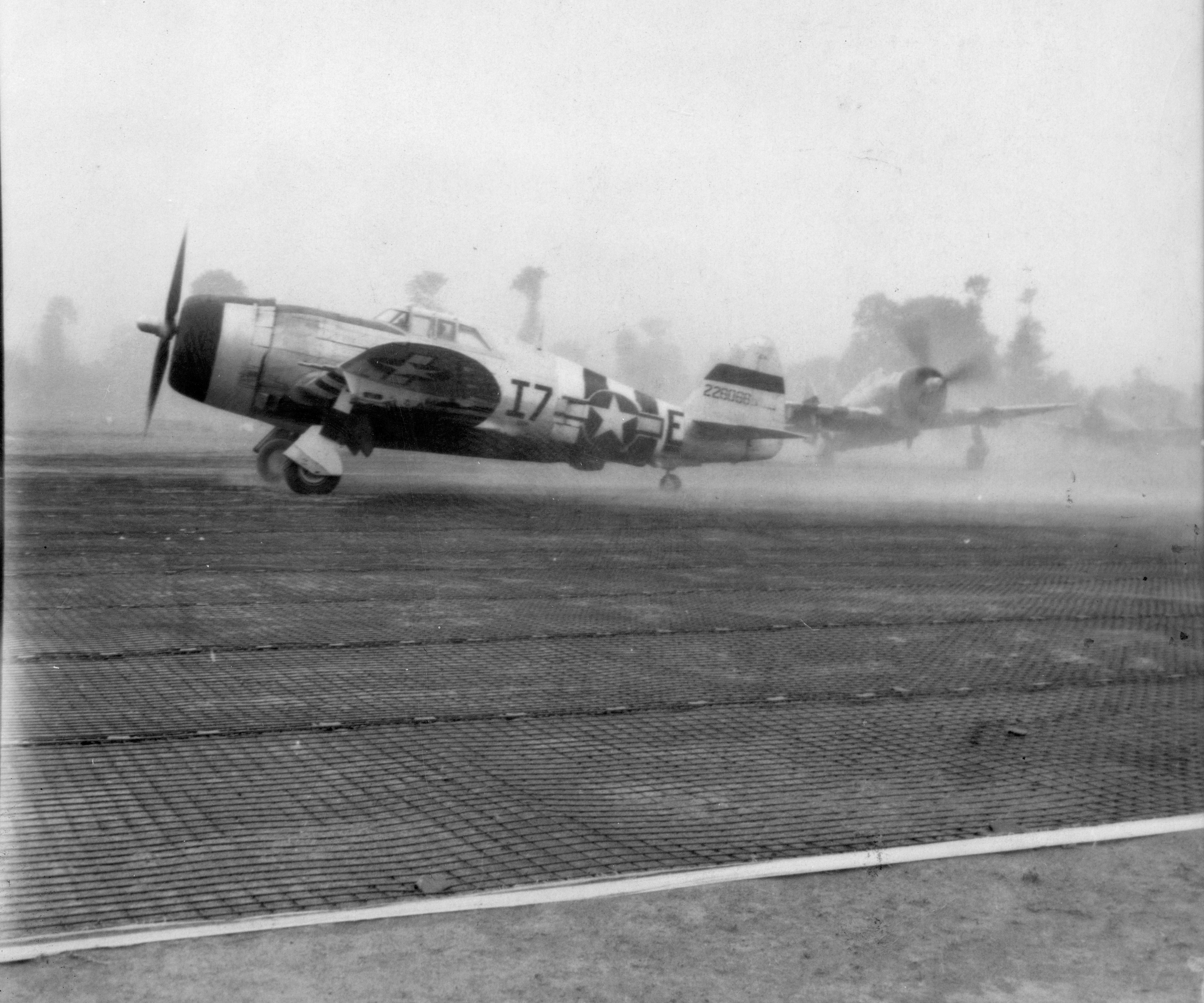 P-47 Thunderbolts of the 48th Fighter Group line up for take off in Normandy. Image stamped on reverse: 'Associated Press.' [stamp], 'Passed for publication 19 Jun 1944.' [stamp] an d'330049.' [Censor no.] Printed caption on reverse: 'P-47S GO INTO ACTION IN NORMANDY. Associated Press Photo shows: From one of the newest airstrips built in France to accommodate the heavy American Thunderbolts. P-47s Fighter Bomber refueled and re-armed taxi to the starting line in clouds of dust for another trip in their hunt for Germans to be strafed.'